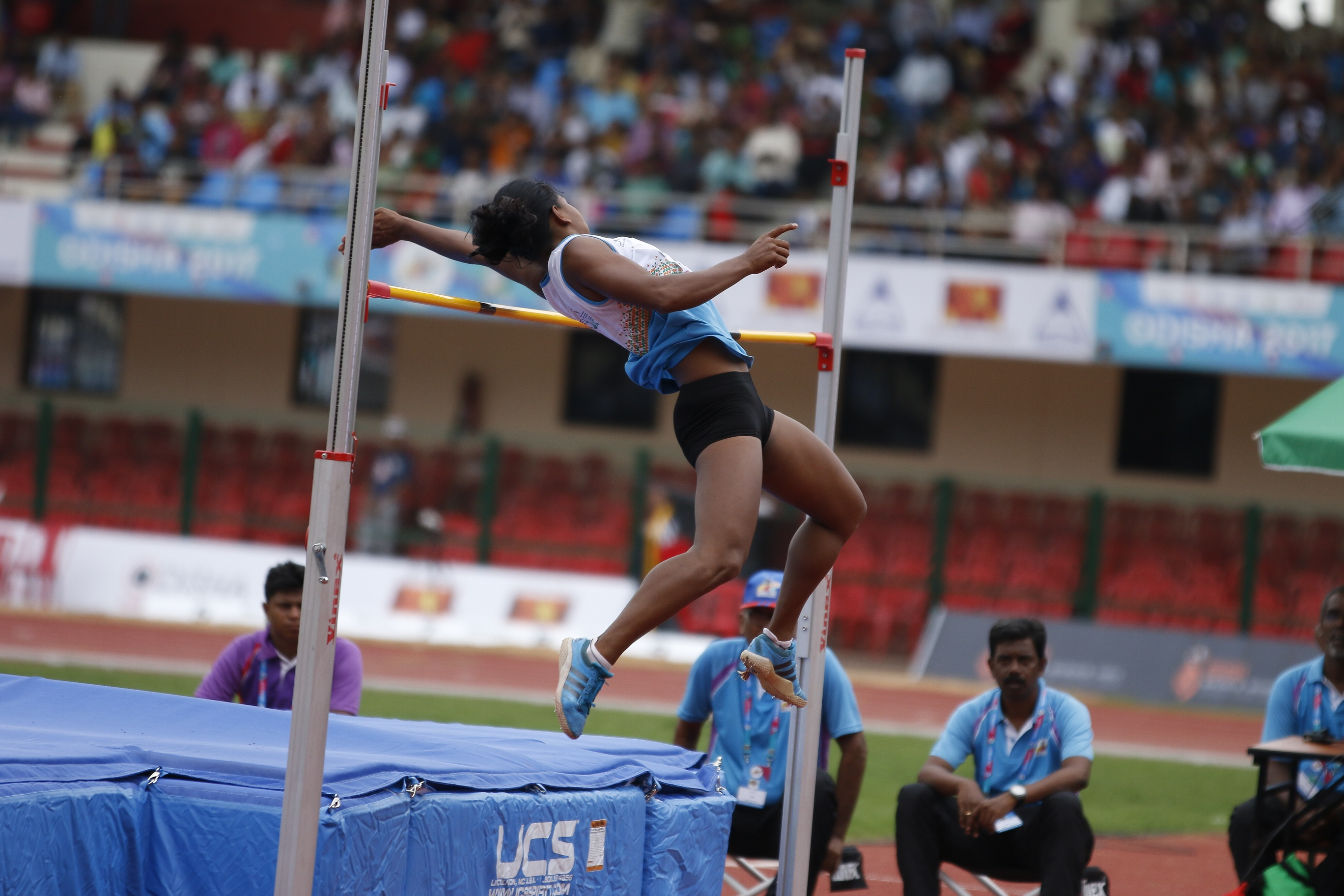 picture taken at the 2017 Asian Athletics Championships in July 2017 in Bhubaneshwar